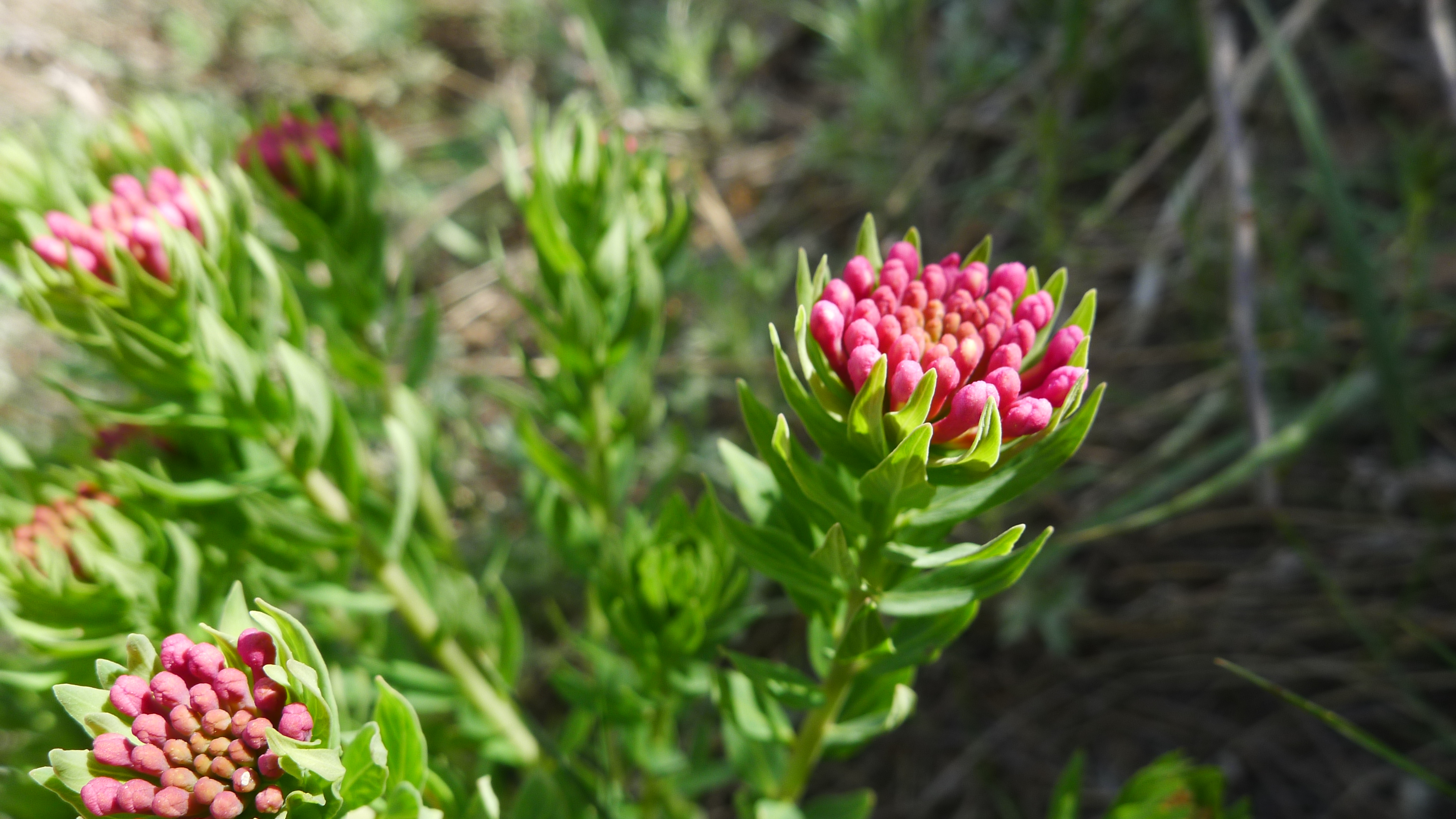 The flower is called "Langdu" （狼毒花）, lit. "wolf poison". It is used as a medical herb, in the same time, due to its large roots, it speeds up desertation of prairies. It is widely seen in Western China.